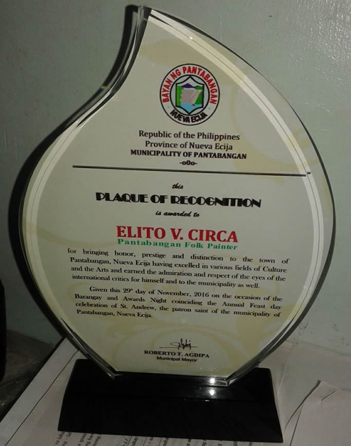 2nd time since 2007 - Natatanging Anak ng Pantabangan (Arts and Culture Category: Folk Painter)